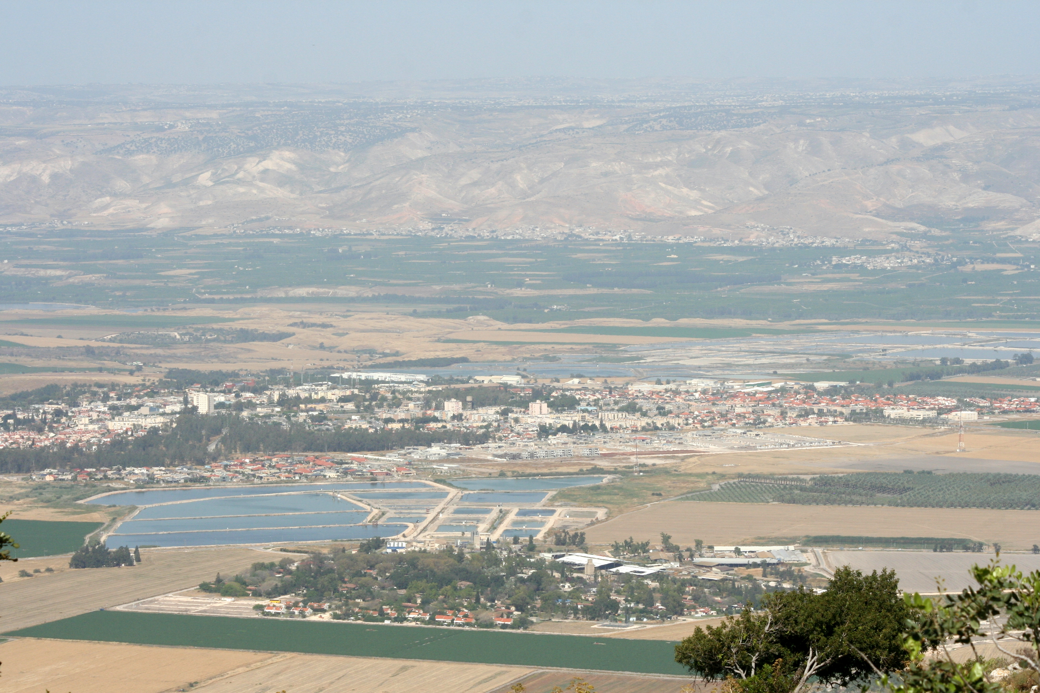 Kibbutz Reshafim in the foreground with Beit Shean in the background.